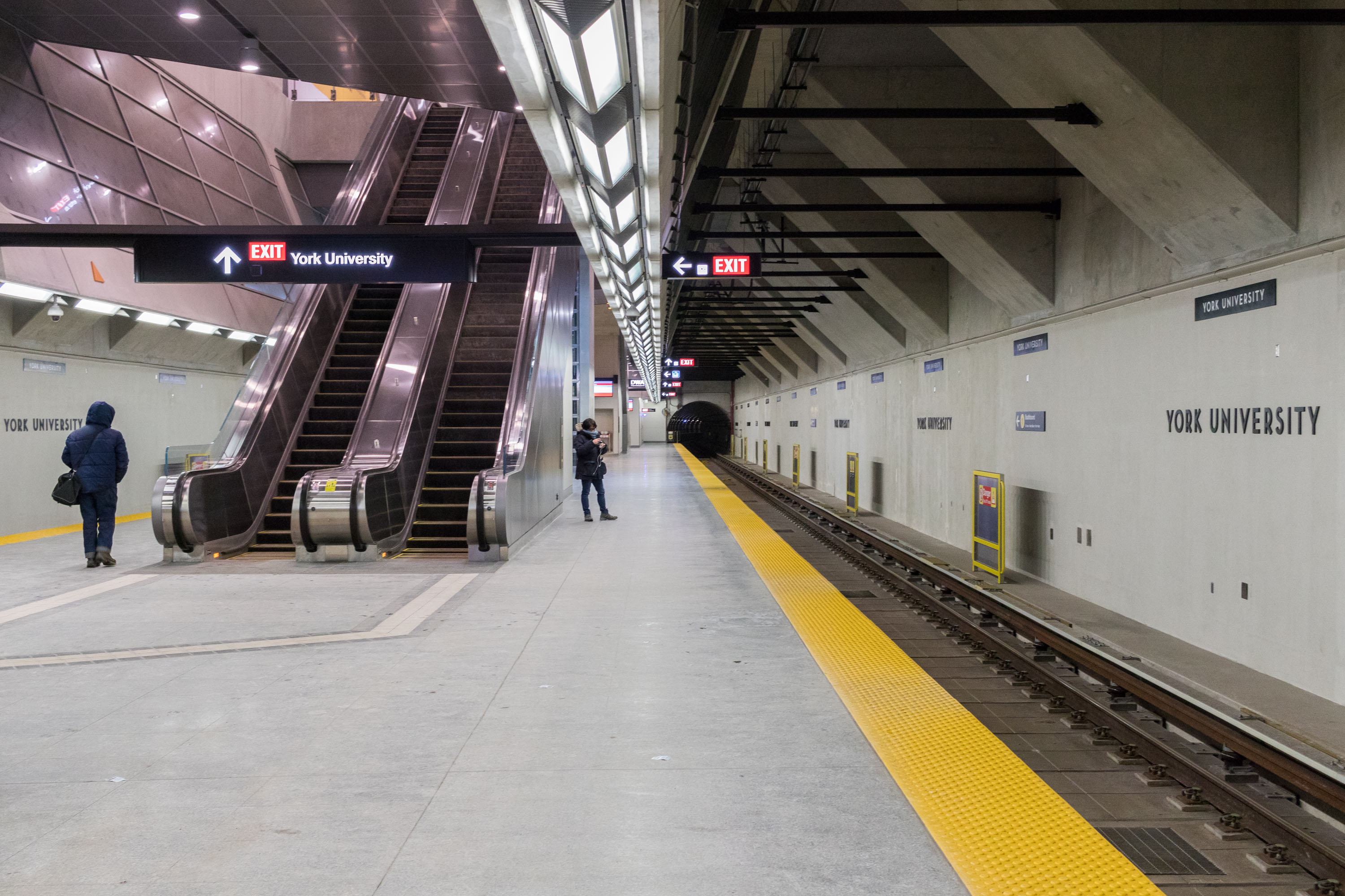 York University Station Platform Level